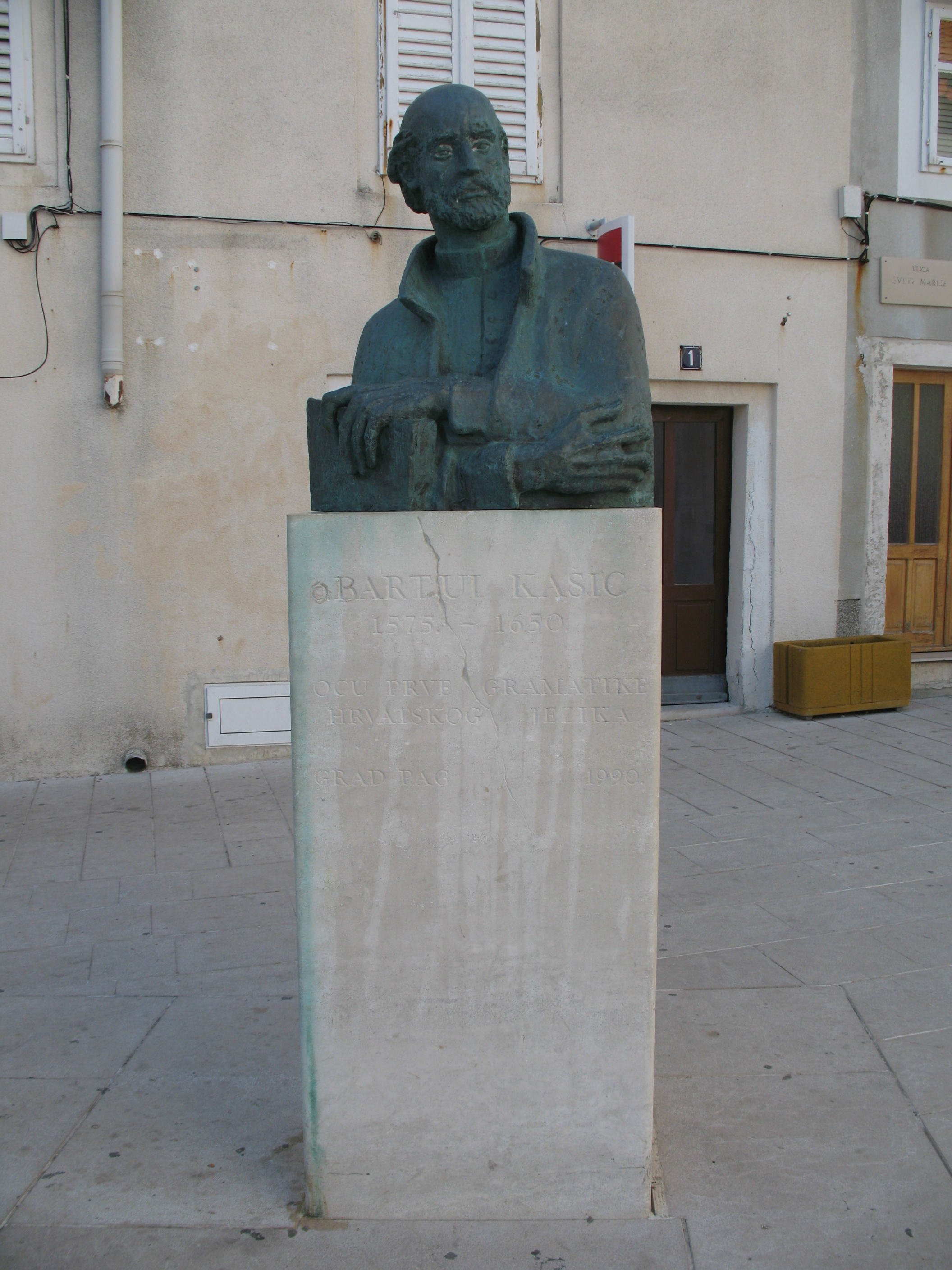 Bartol Kašić (Bartholomew Kashich) bust in the Town of Pag, Croatia